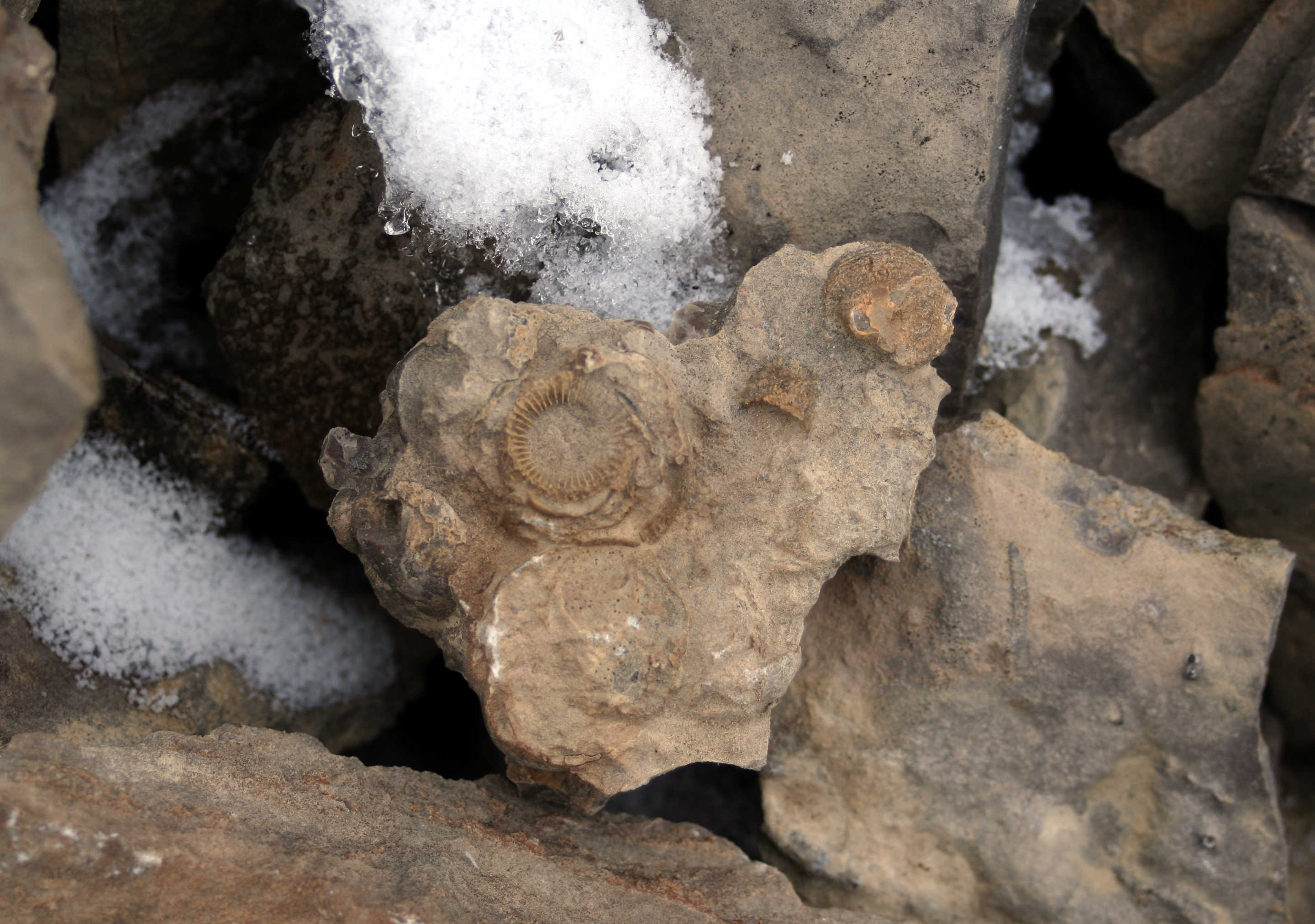 Marine Fossils at Beechy Island, Canadian Arctic